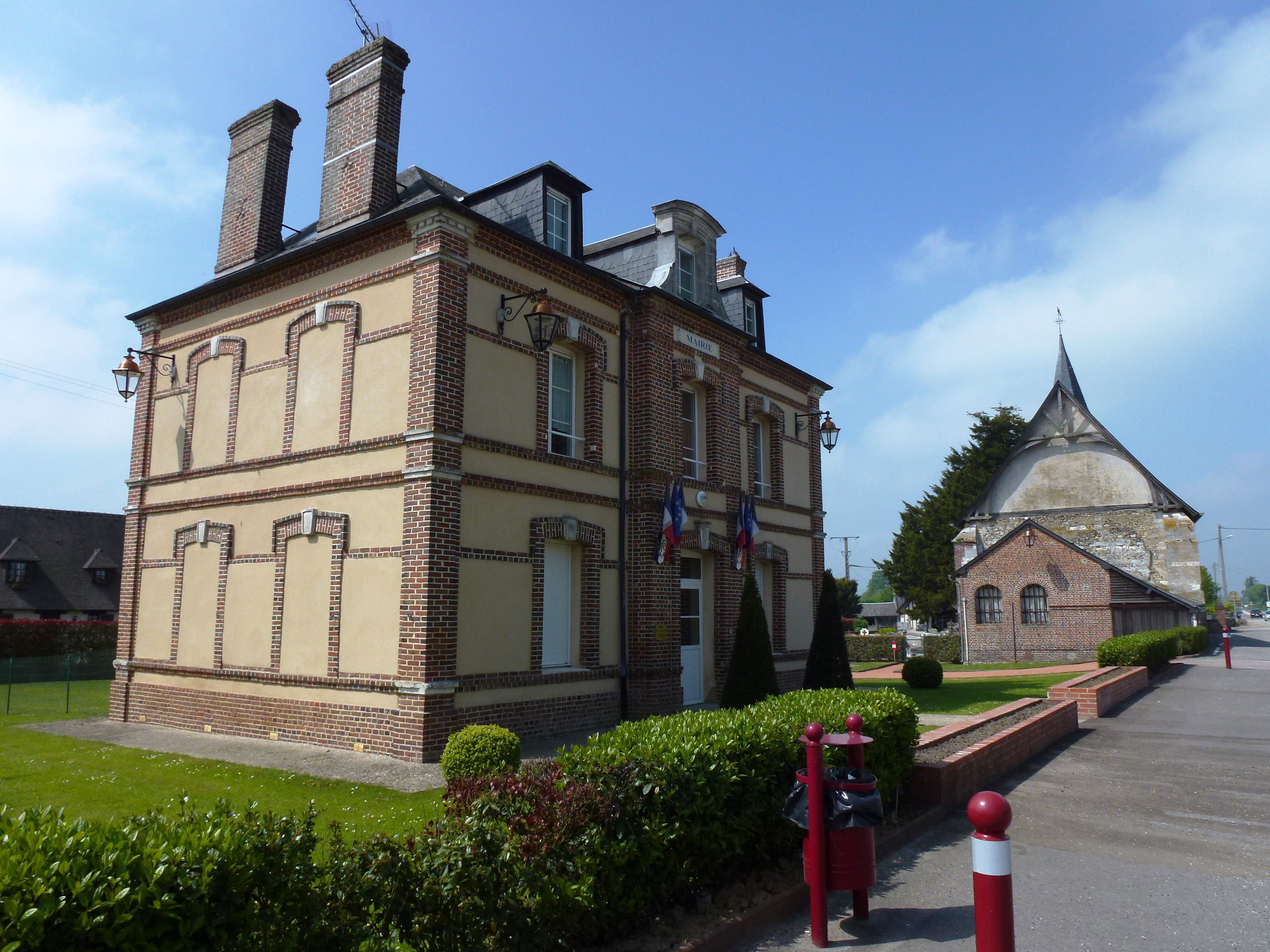 Duranville (Eure, Fr) mairie